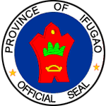 Provincial seal of Ifugao, Philippines.